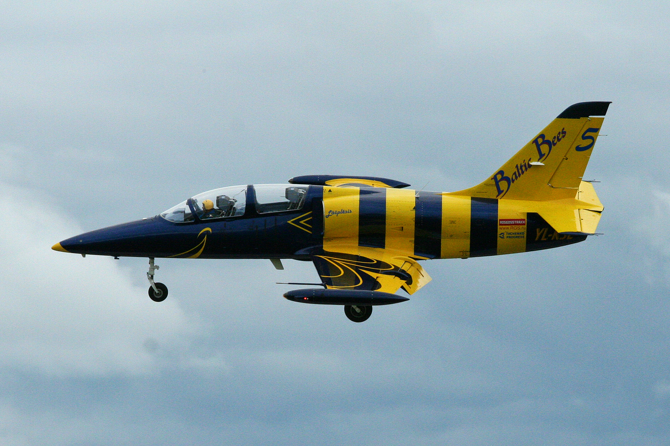 Performing a 'crazy landing' flyby as part of the 'Baltic Bees' team display. msn 934657. 2012 Malmen Airshow, Sweden. 03-06-2012